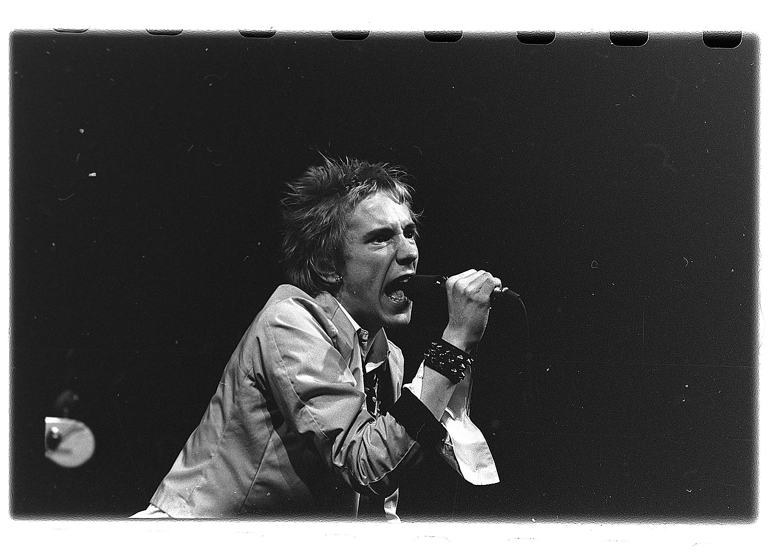 Image from National Archives of Norway's Flickr-Album "Protest" (all images marked with "No known copyright restrictions")